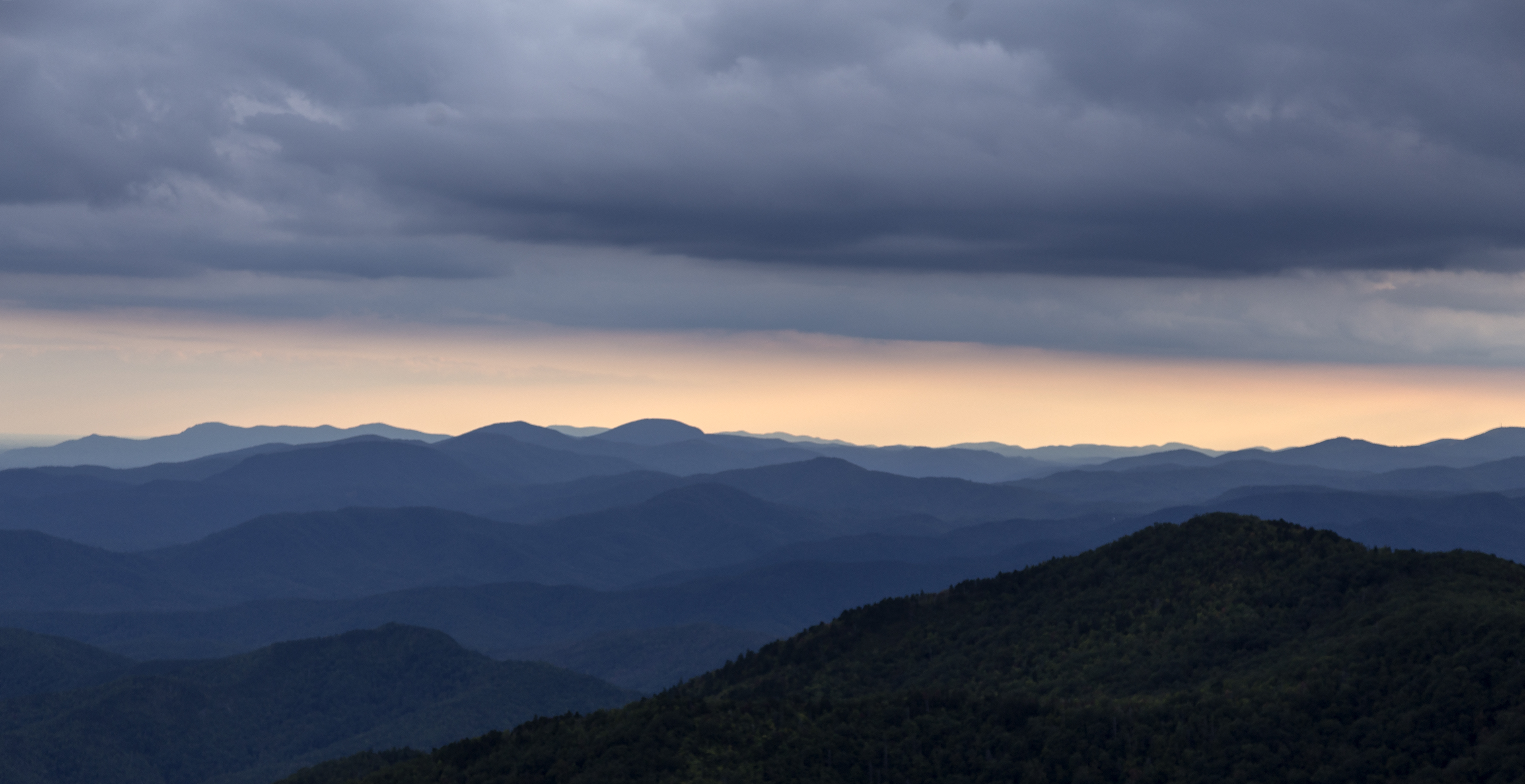 Pisgah National Forest, looking southeast from the Blue Ridge Parkway, North Carolina, USA